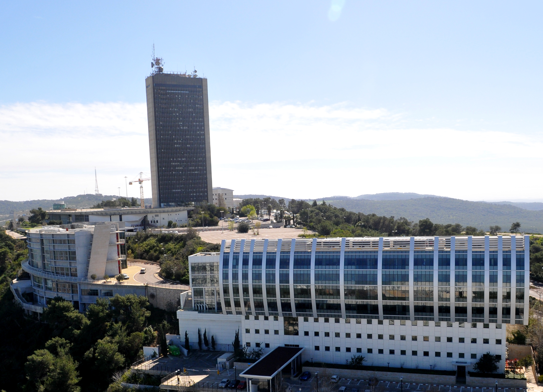 University of Haifa, on the top of Mount Carmel, and IBM R&D Labs next to it - Haifa, Israel